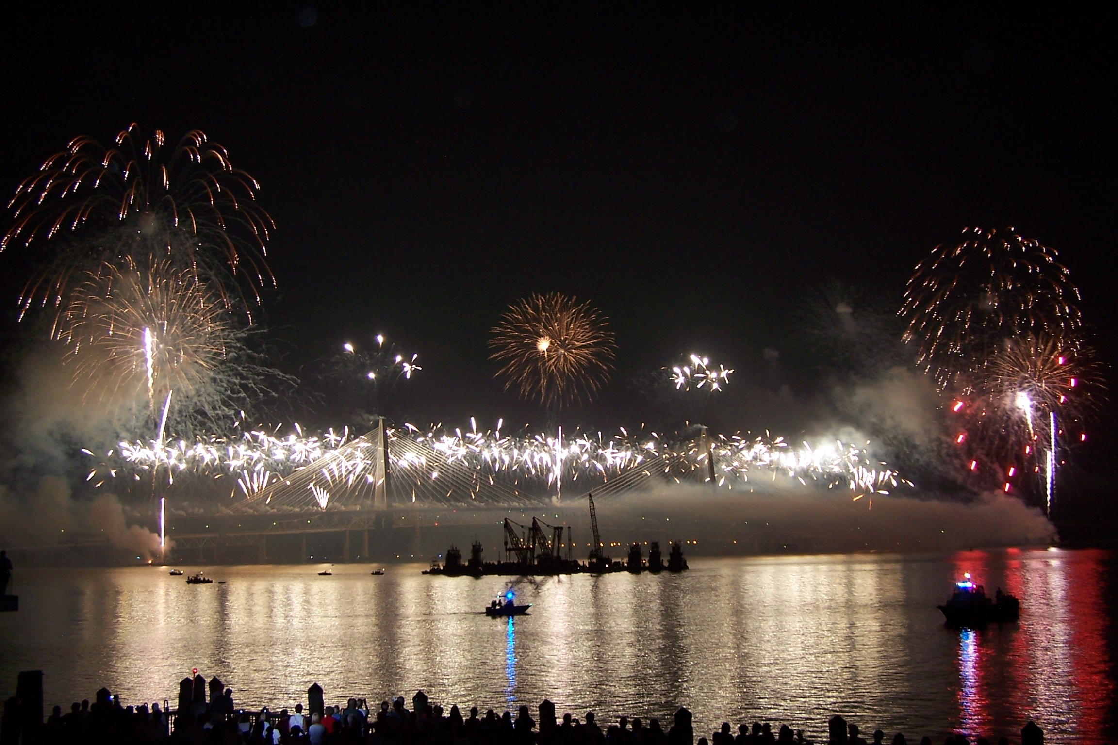 The fireworks display that preceded the opening of the Arthur Ravenel Bridge in Charleston, SC, USA, in July 2005. The bridge links the cities of Charleston and Mt. Pleasant that are separated by the Cooper River.